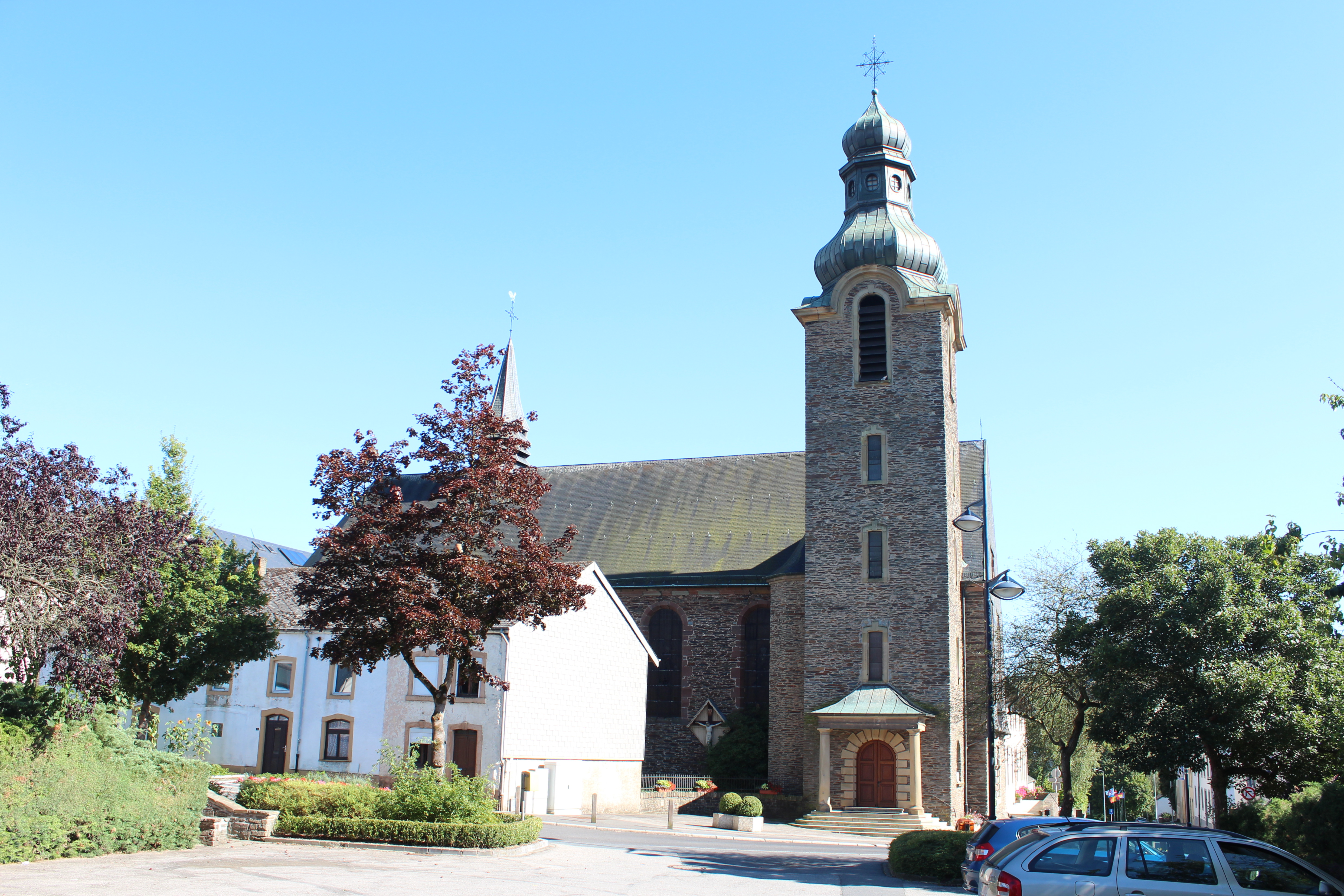 Eglise Saint-André Troisvierges, Luxembourg. Cultural heritage monument ("monument national")